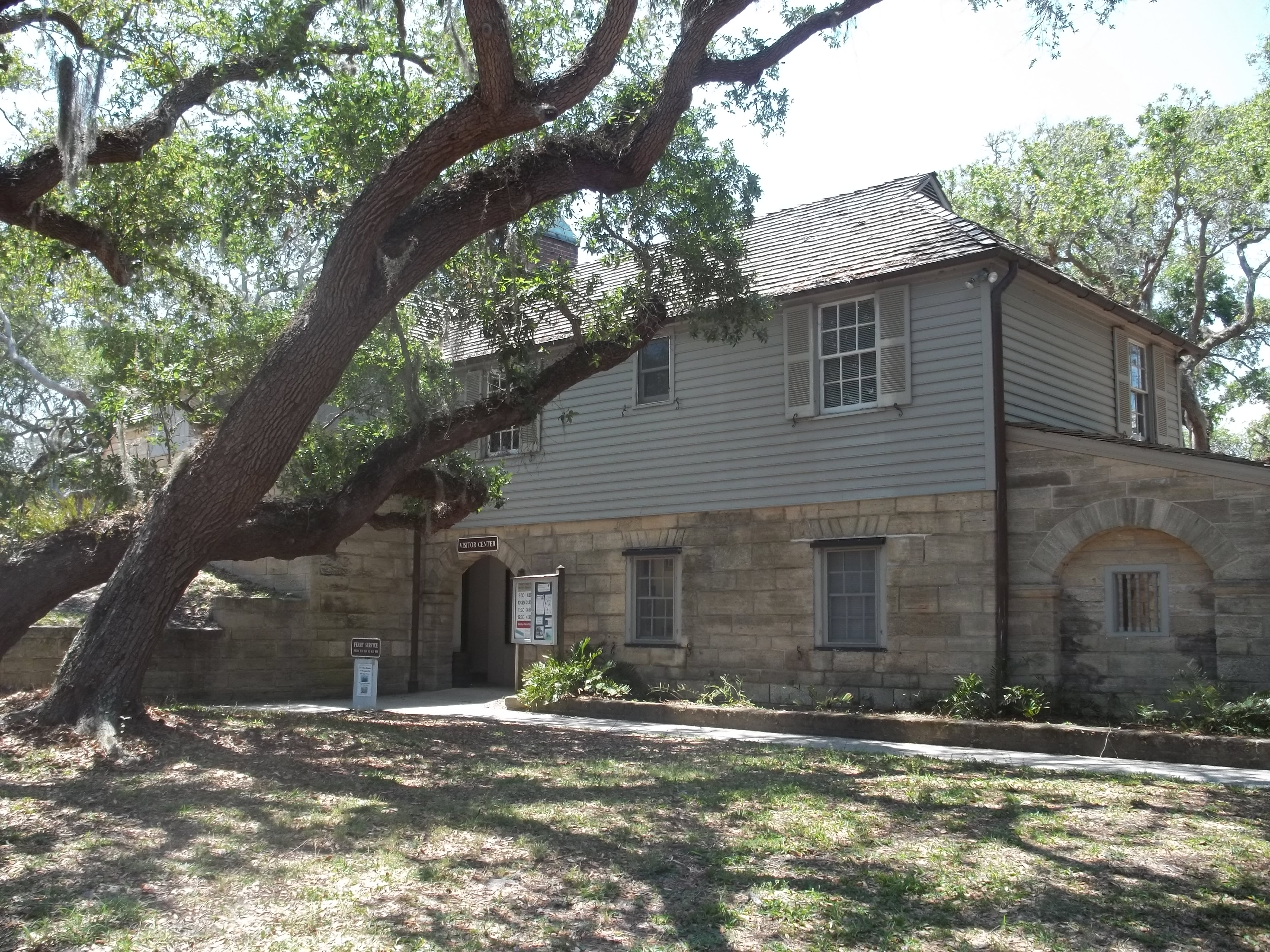 Near Crescent Beach, Florida: Fort Matanzas National Monument Headquarters and Visitor Center